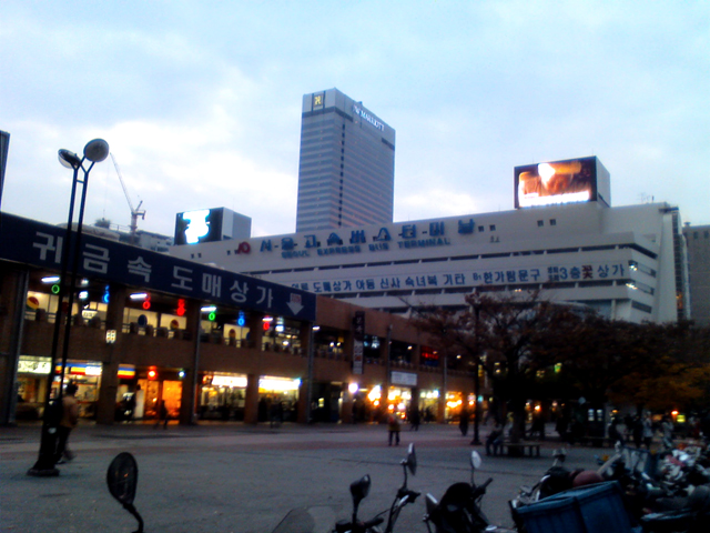 Seoul_express_bus_terminal, Seocho District, SEOU,L KOREA